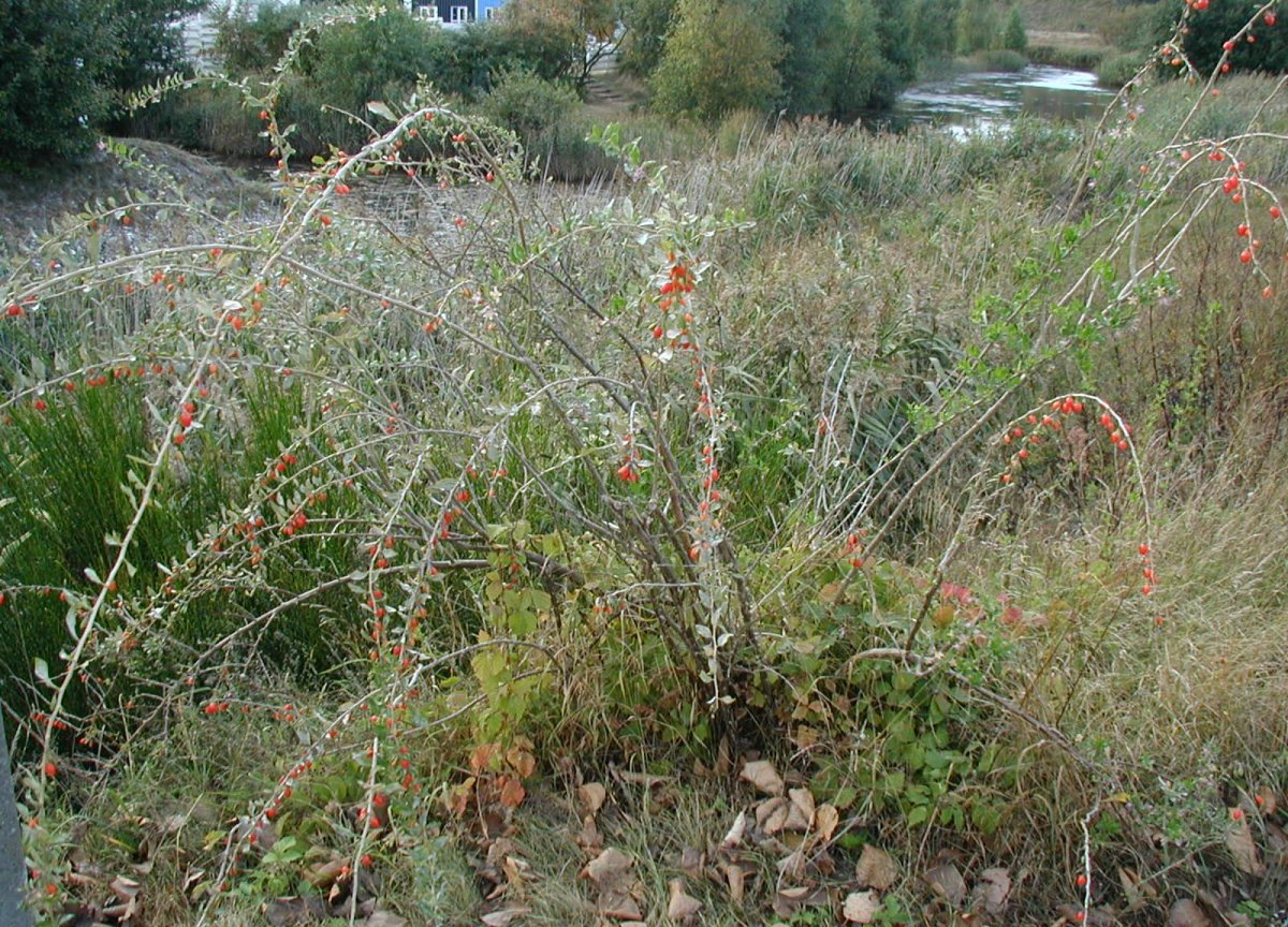 Lycium barbarum, The east coast of Jutland, Denmark. This is the growth habit of Lycium barbarum.